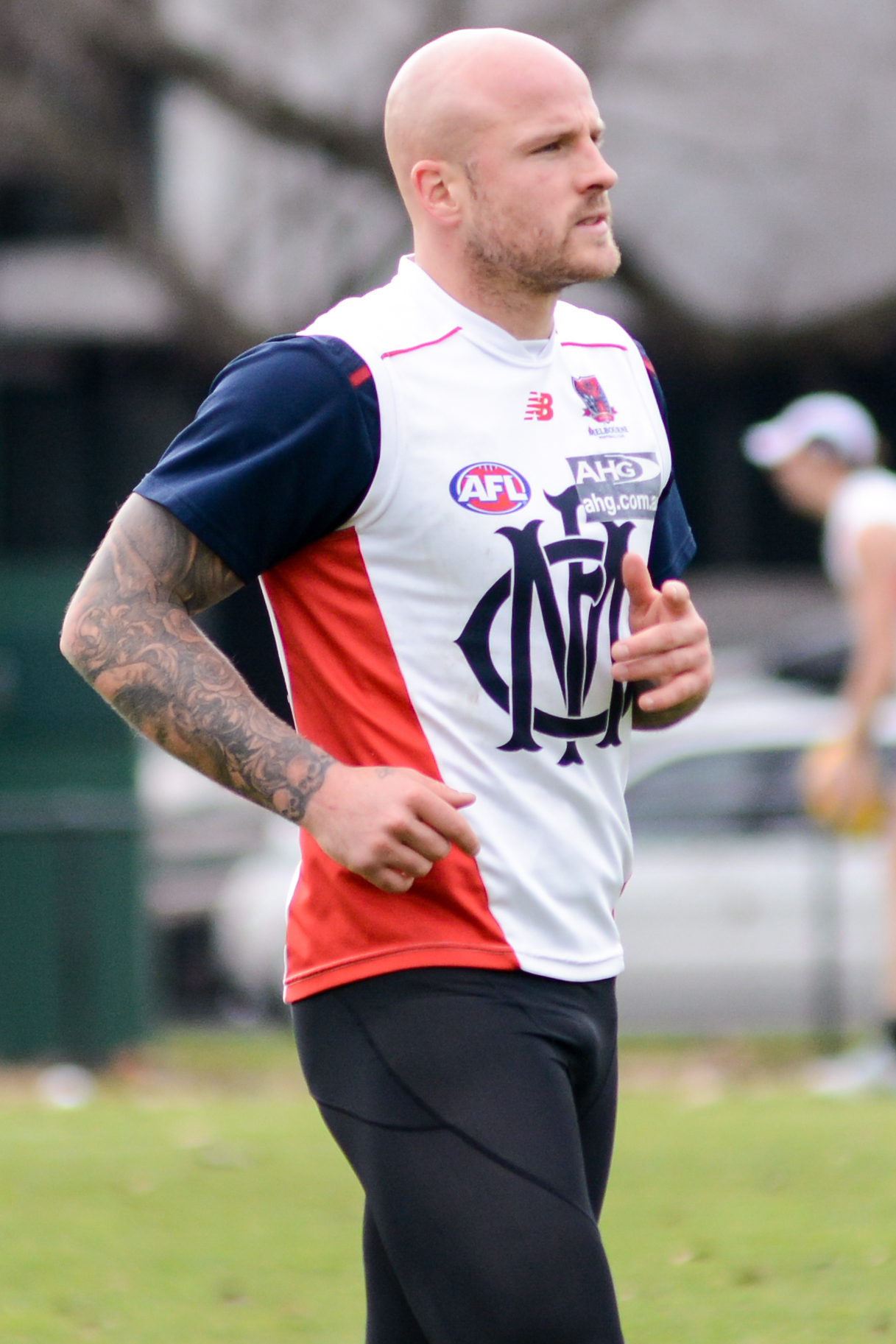 Nathan Jones at training during July 2015